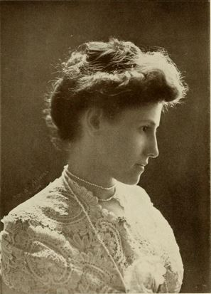 Daisy E. Nirdlinger, Gerhard Sisters Photo, Johnson, Anne (André) "Mrs. Charles P. Johnson", 1871-. Notable women of St. Louis, 1914; (Kindle Location 4402). [St. Louis, Woodward.]